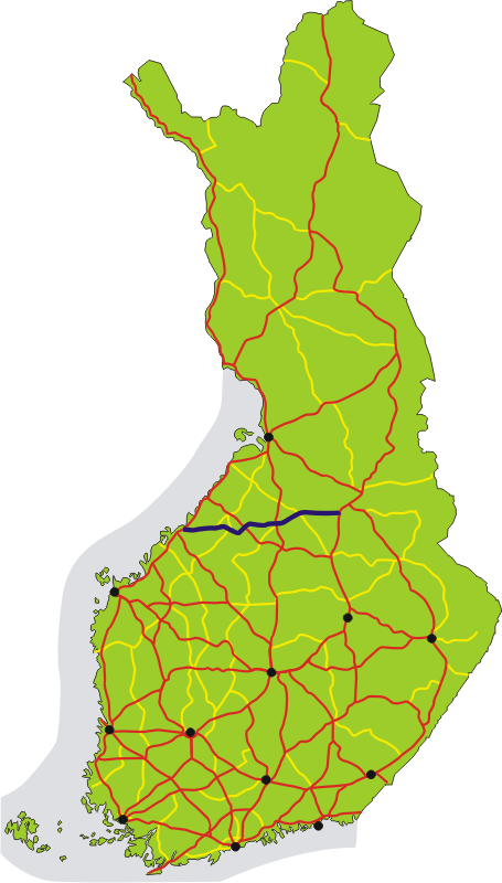 Map of the main road (highway) 28 in Finland, shown in dark blue. The other 1st class main roads (numbers 1–29) are red, 2nd class main roads (numbers 40–98) yellow. Black dots show the 12 biggest urban areas.